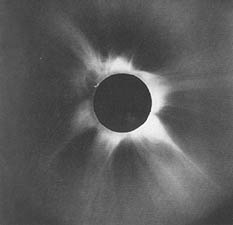 A photo of the total solar eclipse over Kanton on June 8, 1937